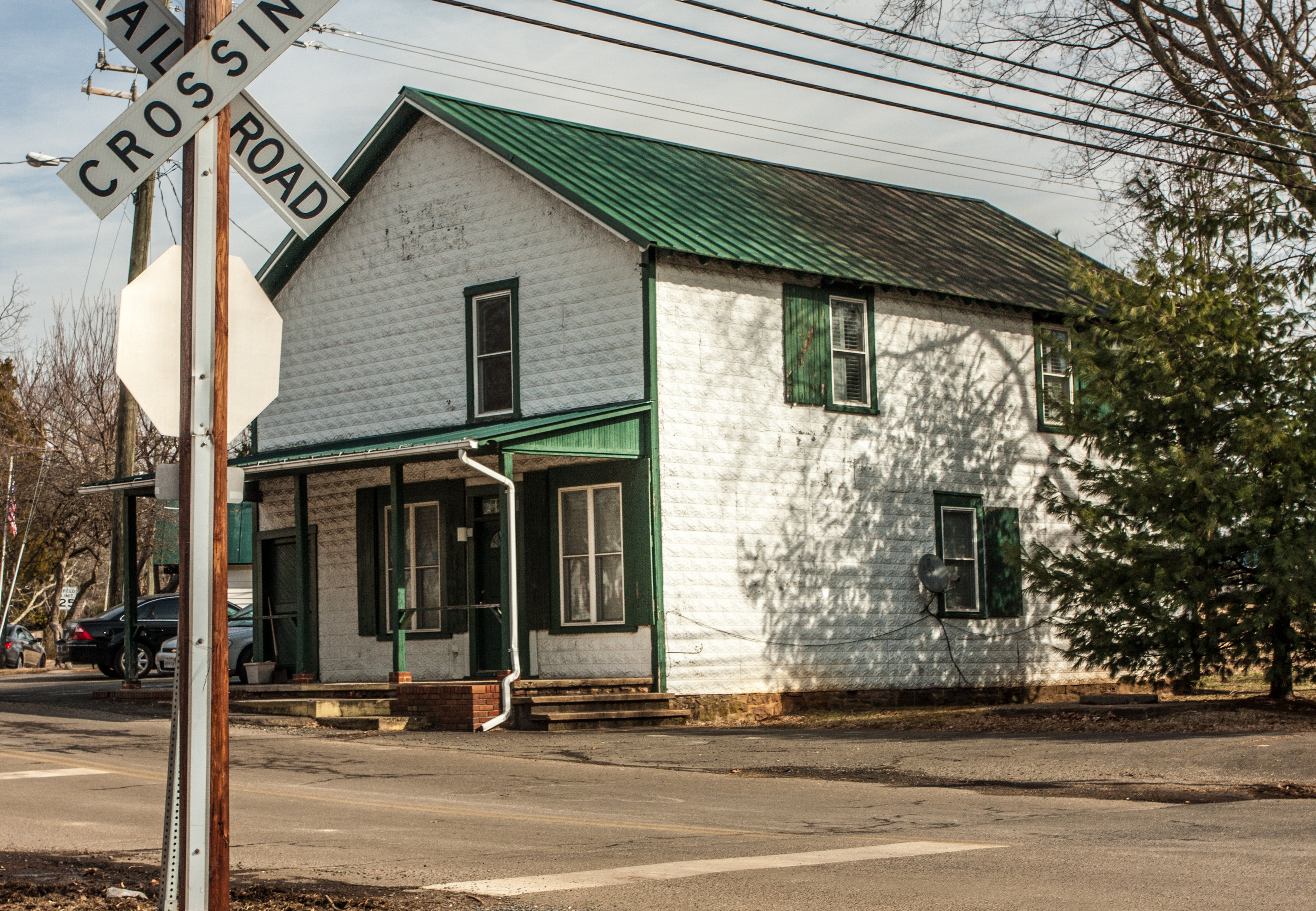 Historic building in Casanova, Virginia